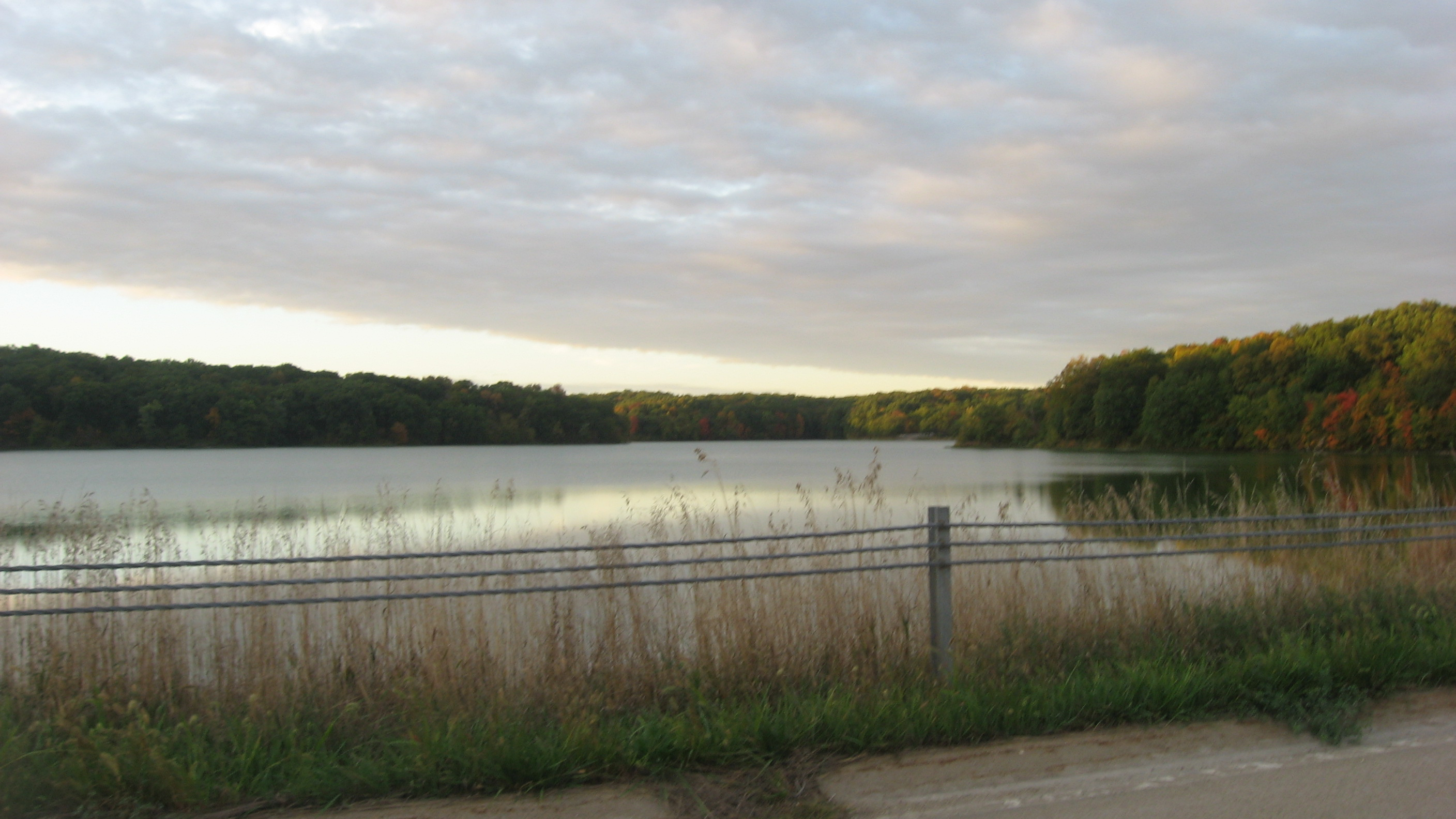 Looking north across Lake Geode at Geode State Park in far southwestern Des Moines County, Iowa, United States.